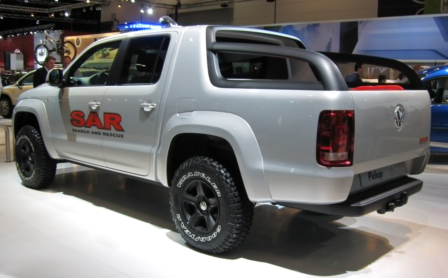 Volkswagen Pickup Concept at Melbourne International Motor Show 2009